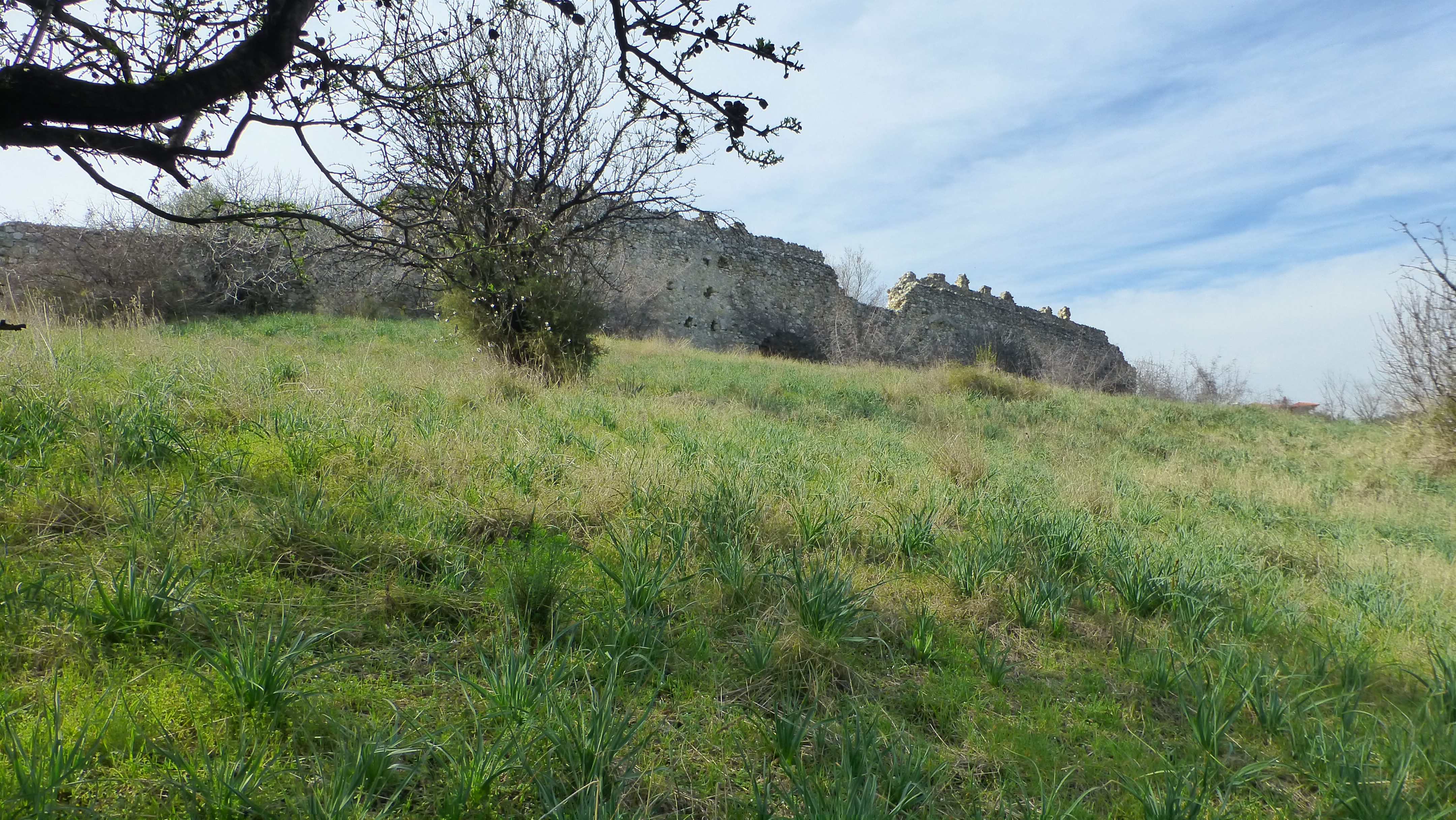 Castle of Orfani, Pangaion, Kavala